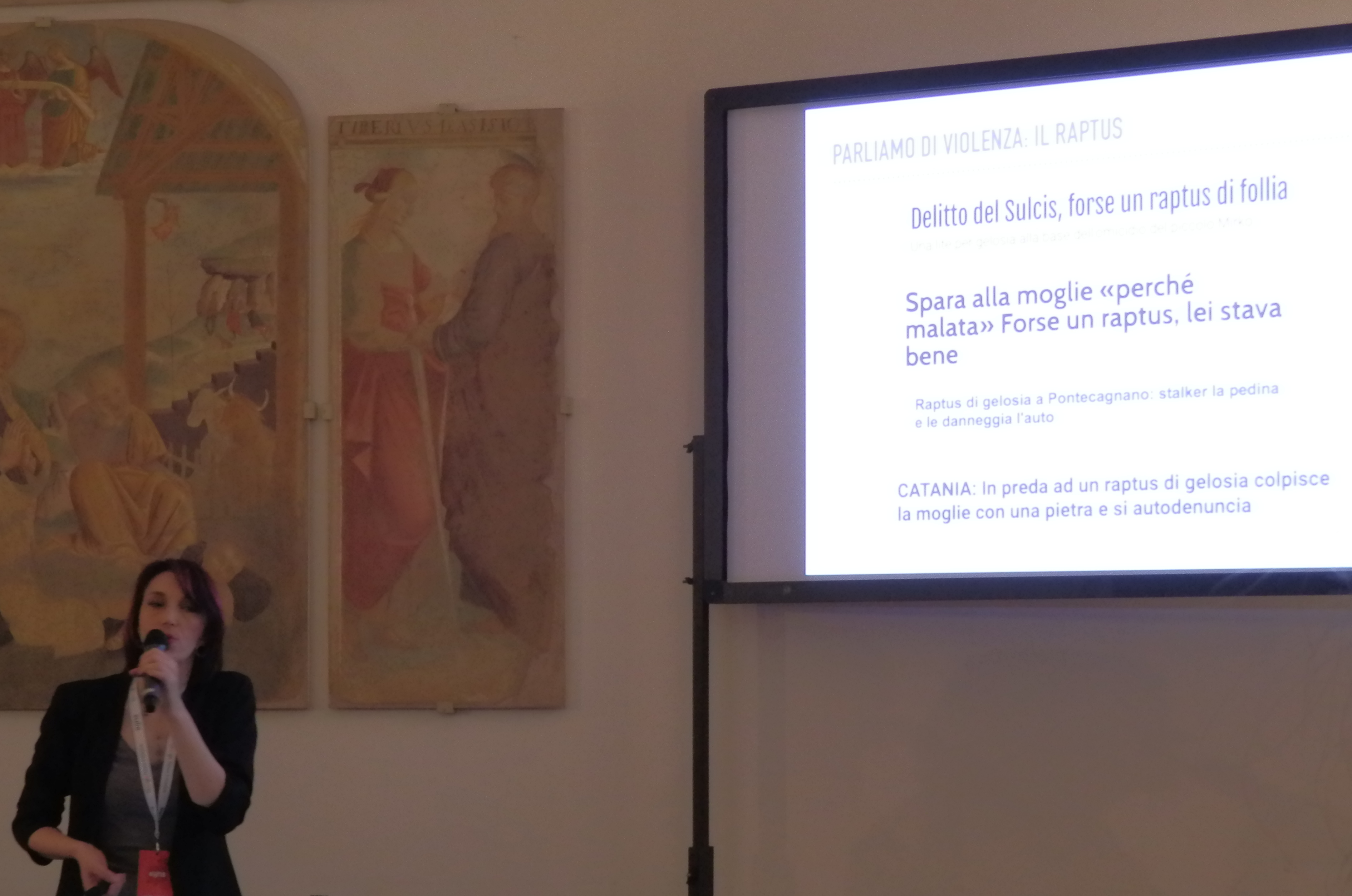 Giulia Blasi, Sala della Vaccara, Perugia, IJF2018 "Genere, violenza, molestie: buone pratiche per gli operatori media"